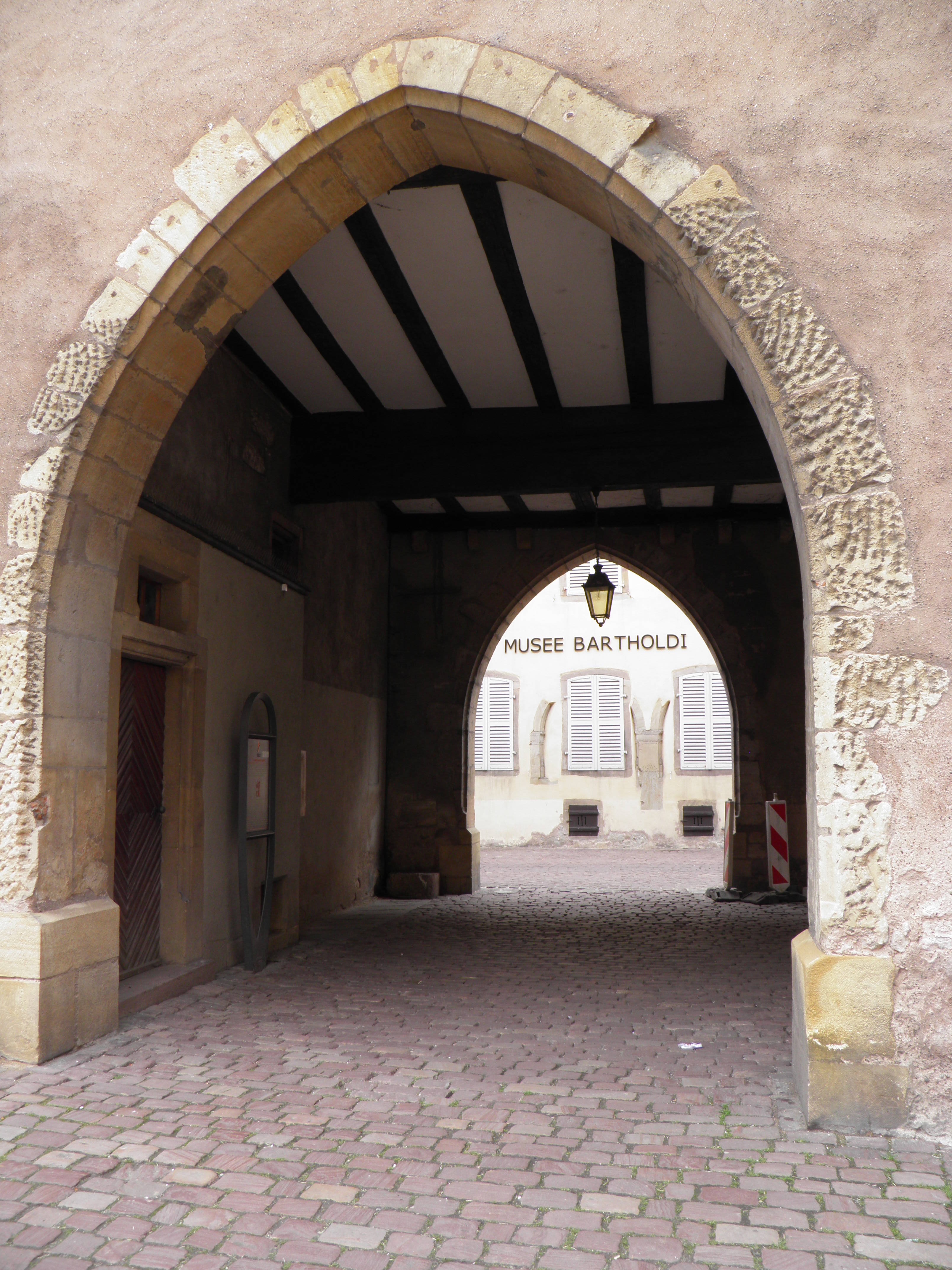 Guard house and Bartholdi museum in Colmar (Haut-Rhin, France).